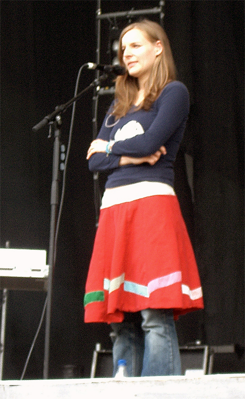 German singer from band Wir sind Helden during the concert in waldbühne Berlin